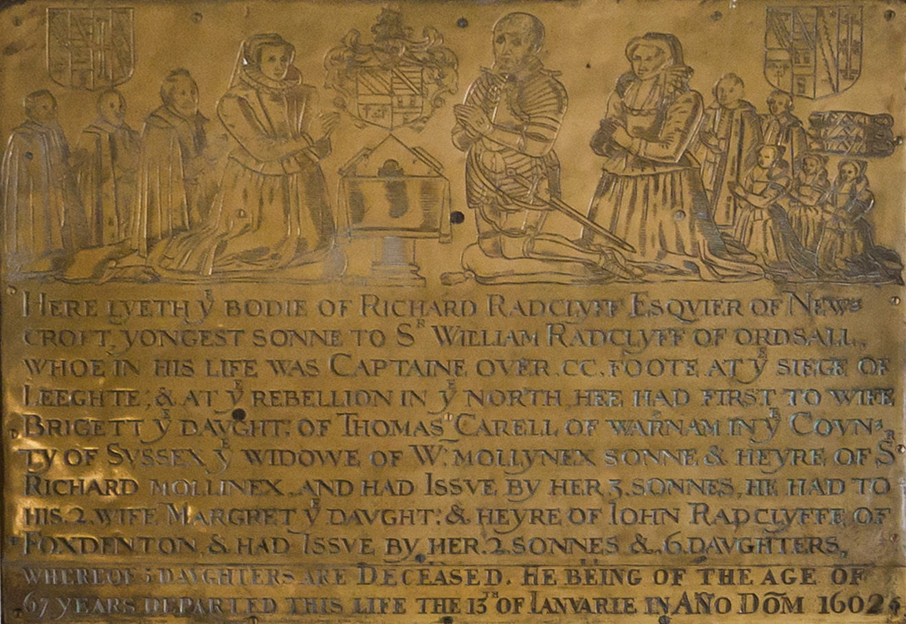 Radclyff Brass in St Michael's Church, Flixton, Greater Manchester